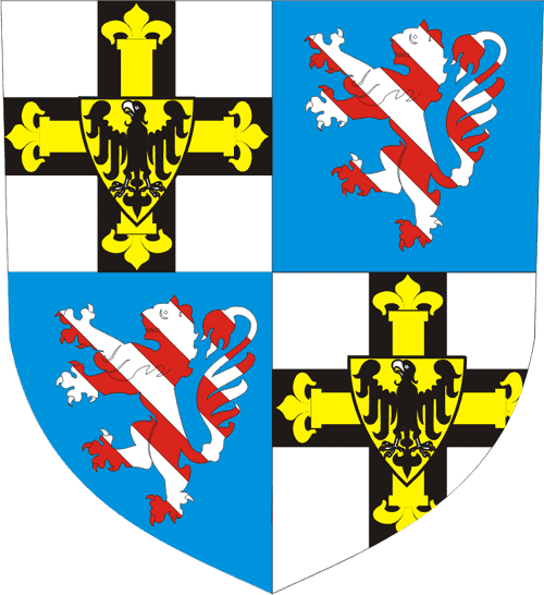 Teutonic Order - Coat of Arms of the Grandmaster Poppo von Osterna